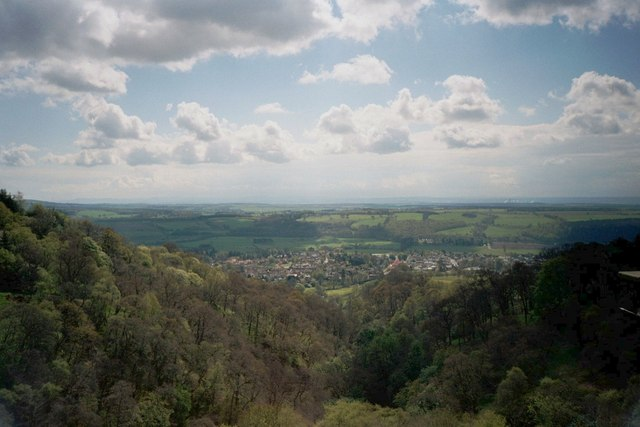 Dollar Glen Looking down into Dollar Glen from Castle Campbell.